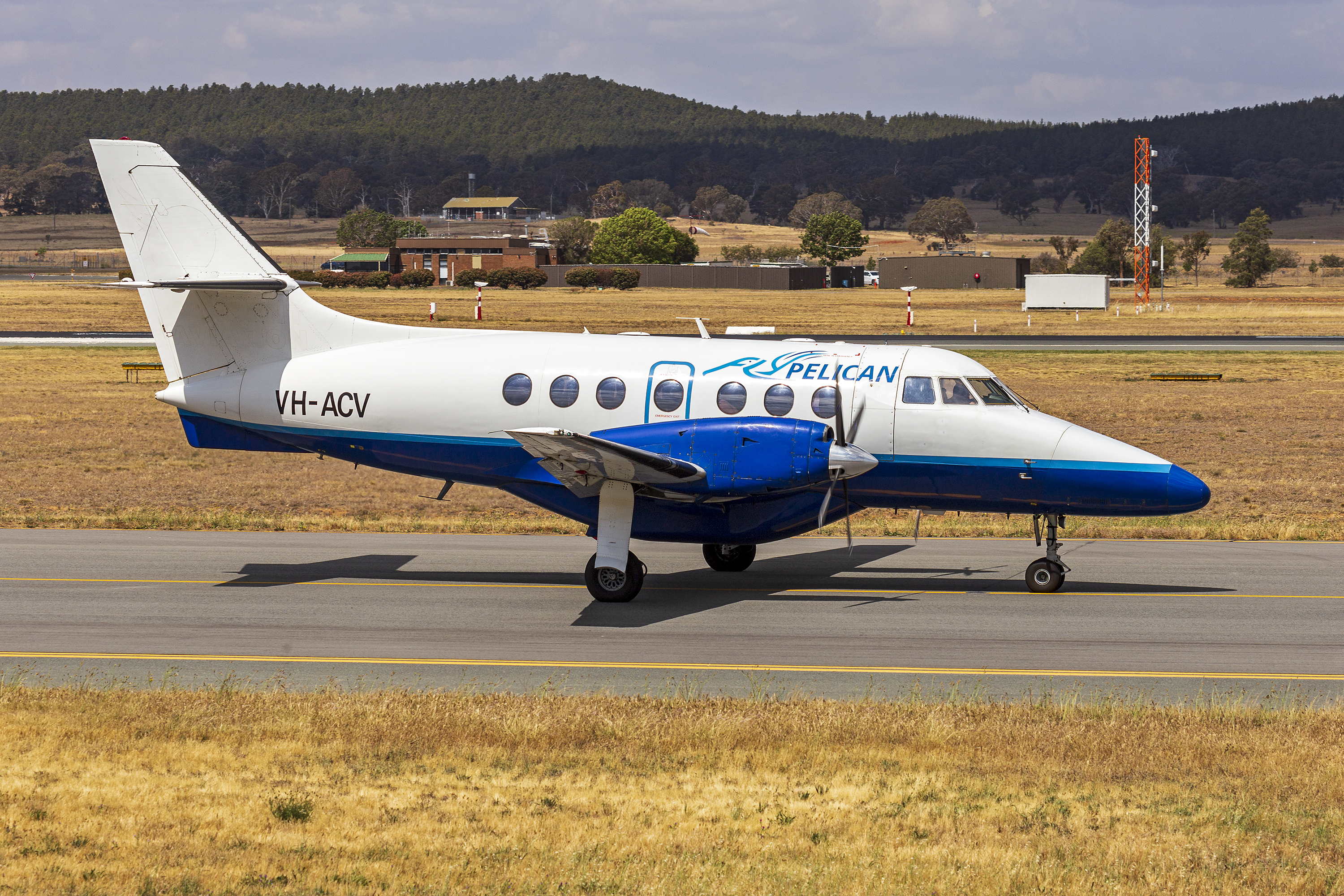 FlyPelican (VH-ACV) BAe Jetstream 32 taxiing at Canberra Airport